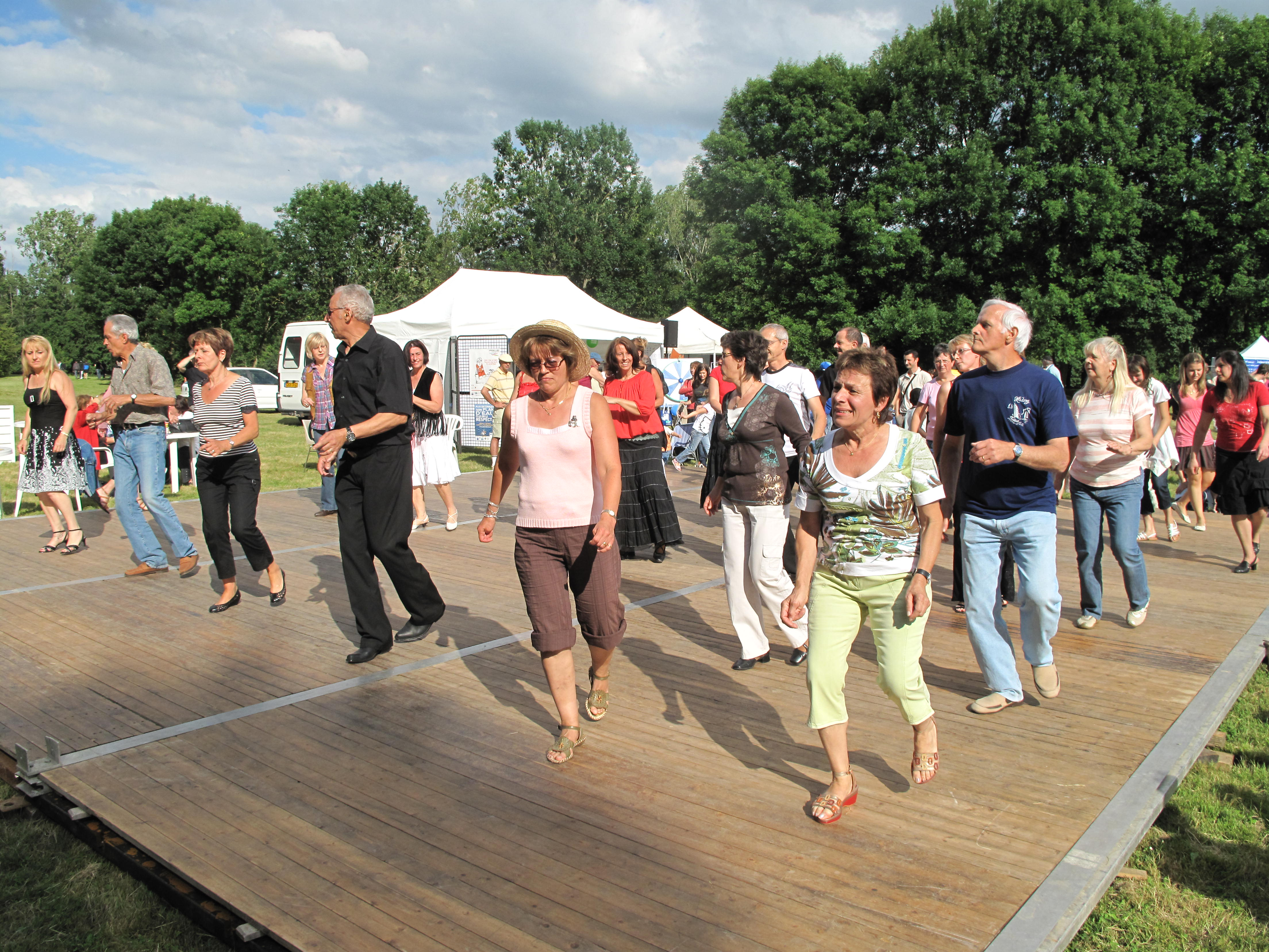 Madison dancers, position #2 (after a quarter of turn on the right)